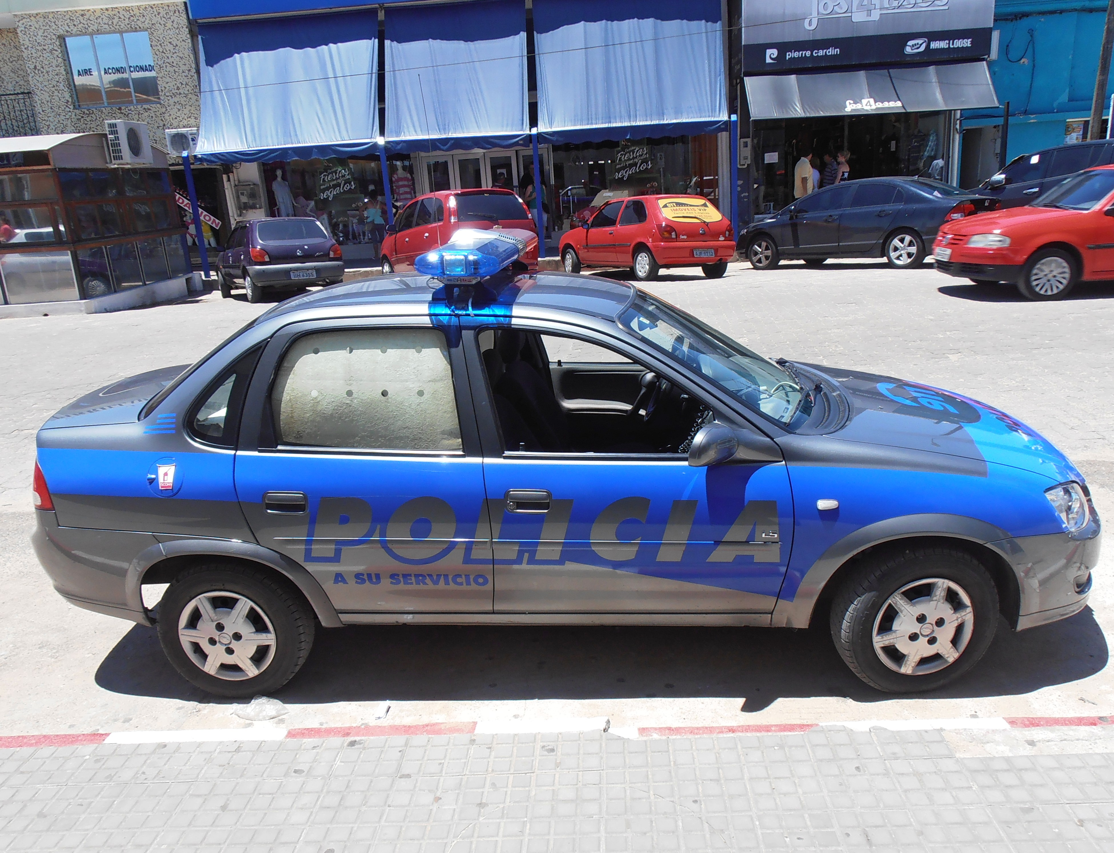 Uruguay police car